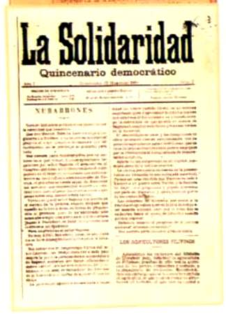 A copy of La Solidaridad, the official organ of the Reform Movement.